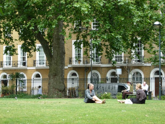 Argyle Square, King's Cross. A plaque here says that the square was re-opened as an amenity for the local community in 1996, following renovations carried out under the Kings Cross Estate Action Programme. The square used to have a reputation as a notorious red light district.